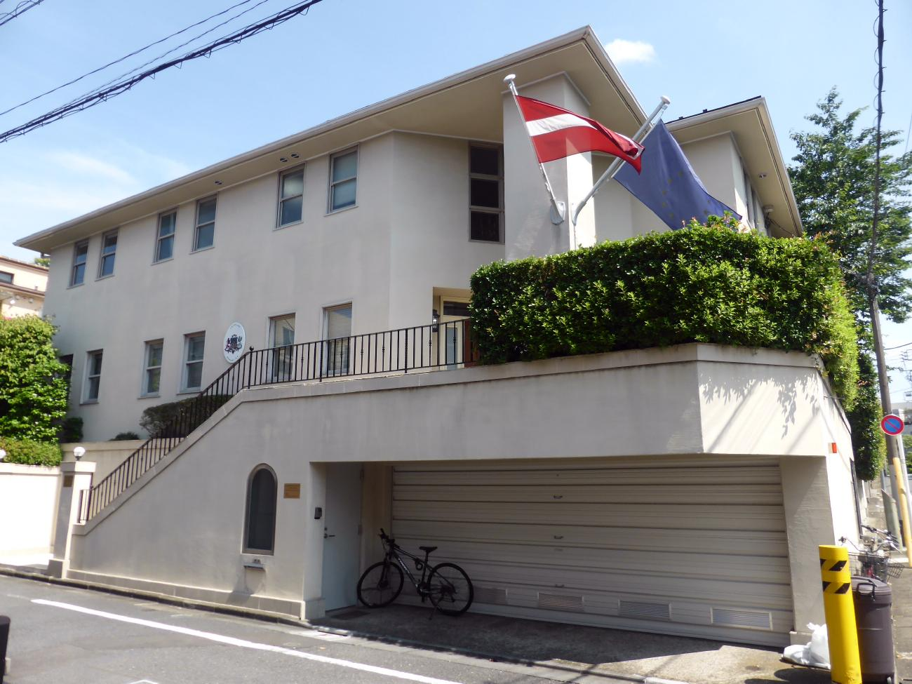 Embassy of Latvia in Tokyo, Japan